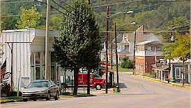 Taken by a family member